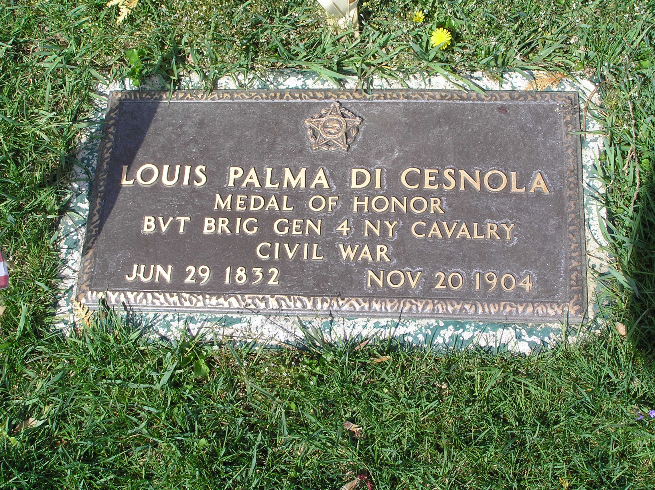 The burial location of Louis Palma Di Cesnola in Kensico Cemetery